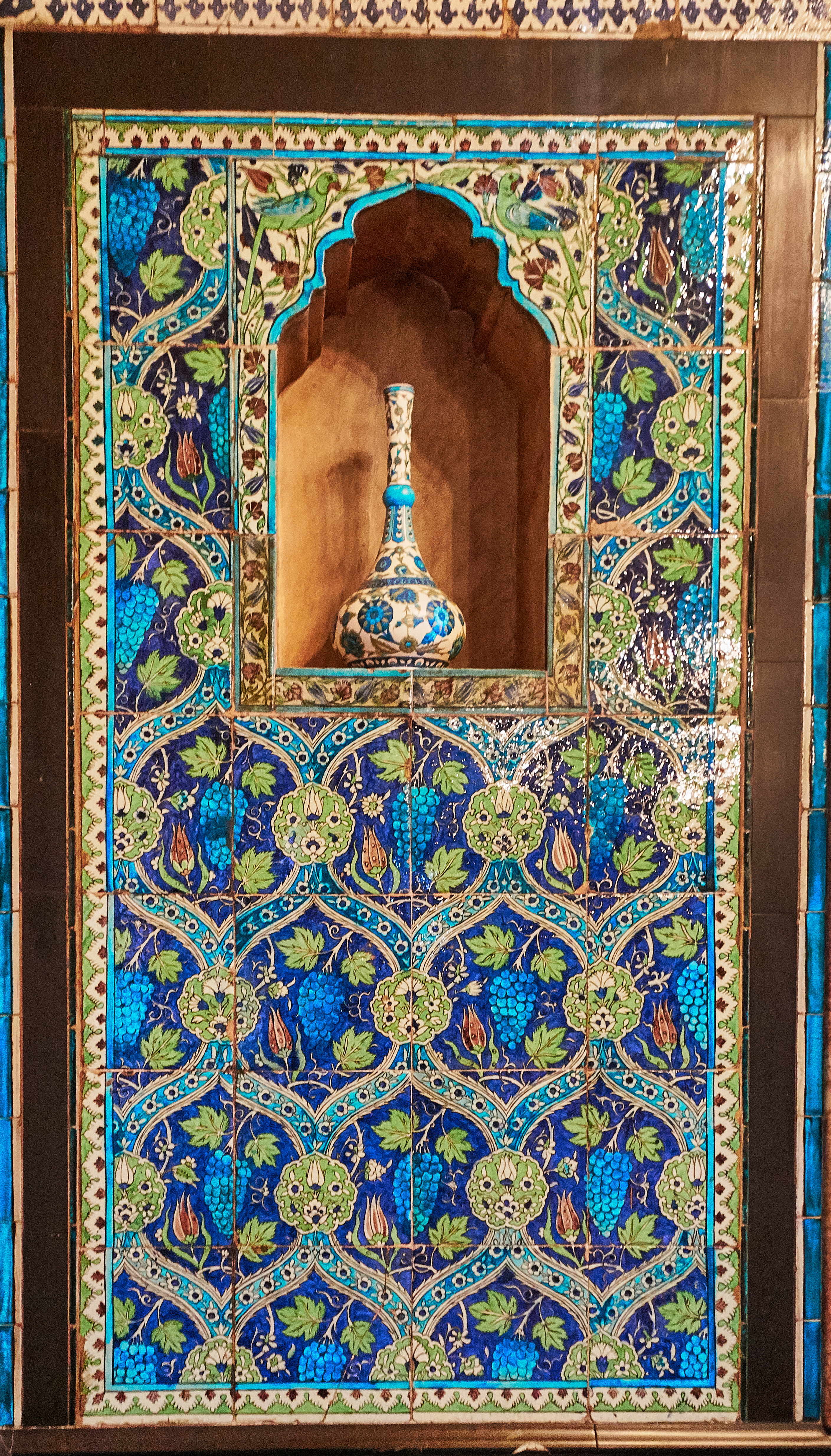 Lord Leighton's house, Kensington.